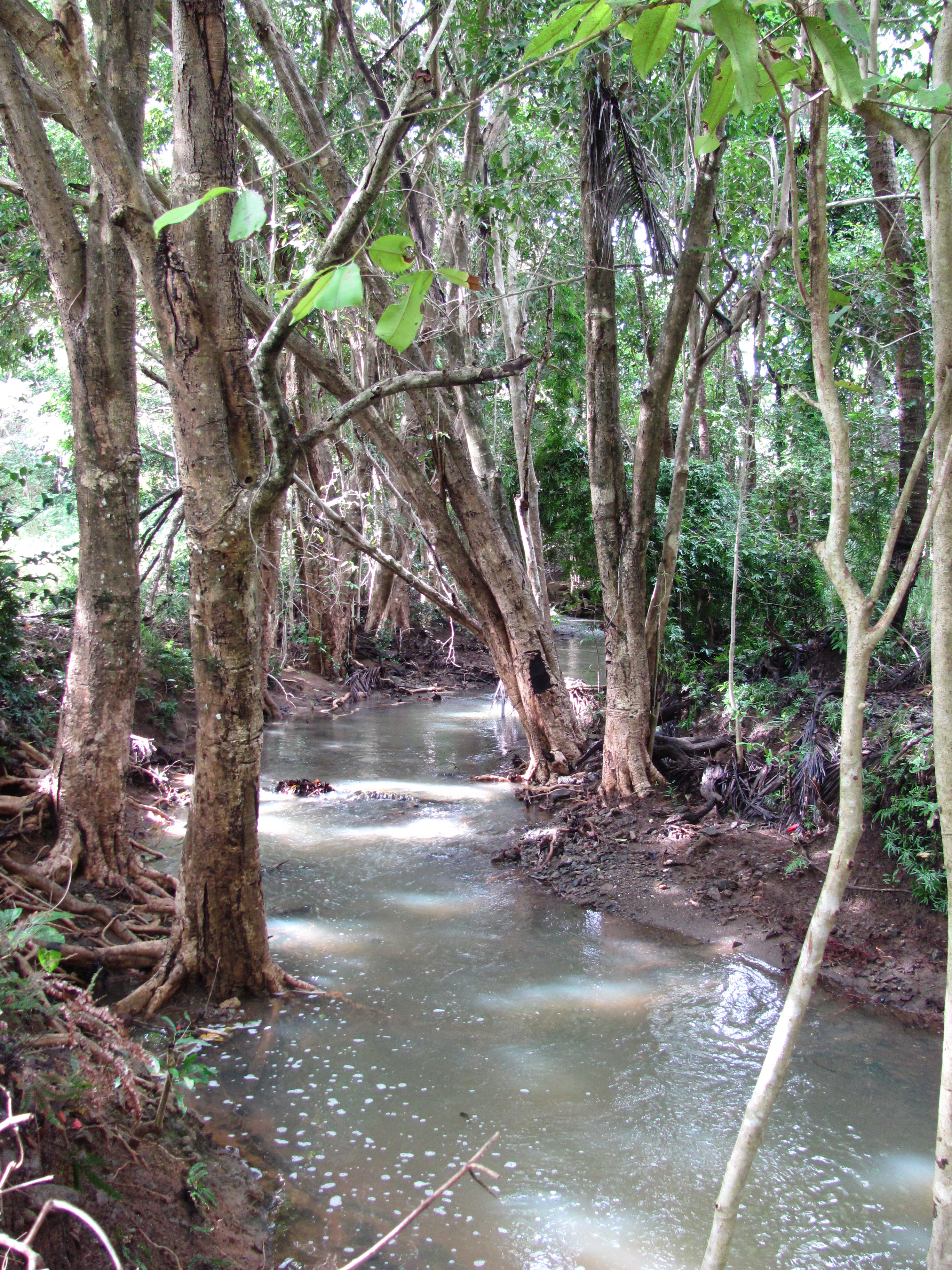 River Ouro, Île des Pins, New Caledonia